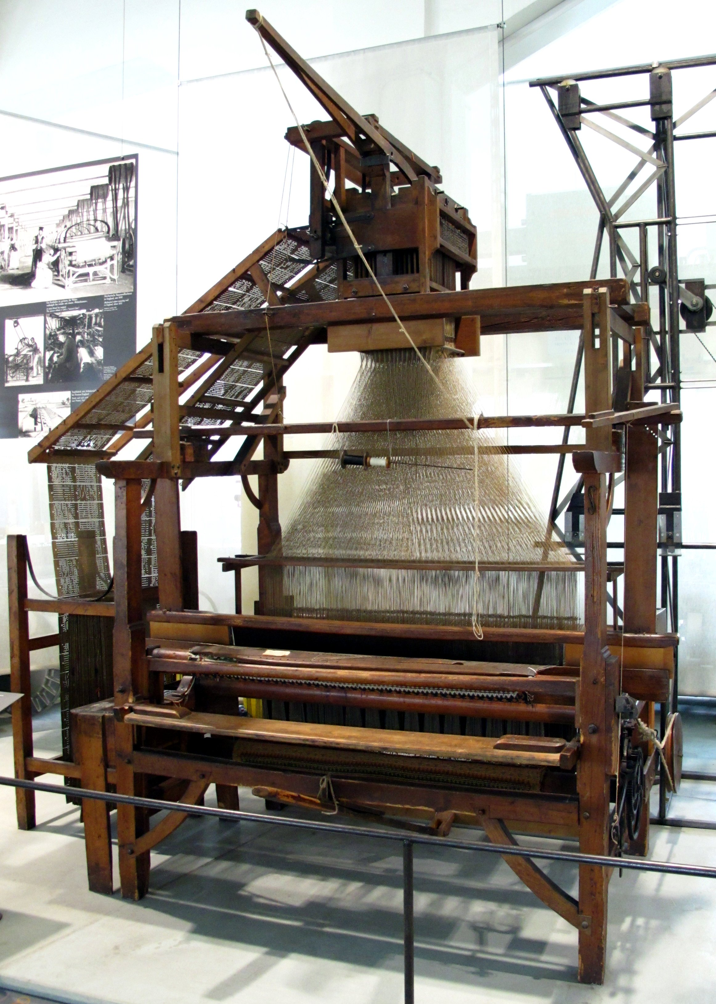 Carpet loom with Jacquard apparatus by Carl Engel, Nördlingen around 1860. On this combination of loom and Jacquard apparatus, large-area patterns, the so-called Jacquard patterns, can be woven with punch card control.